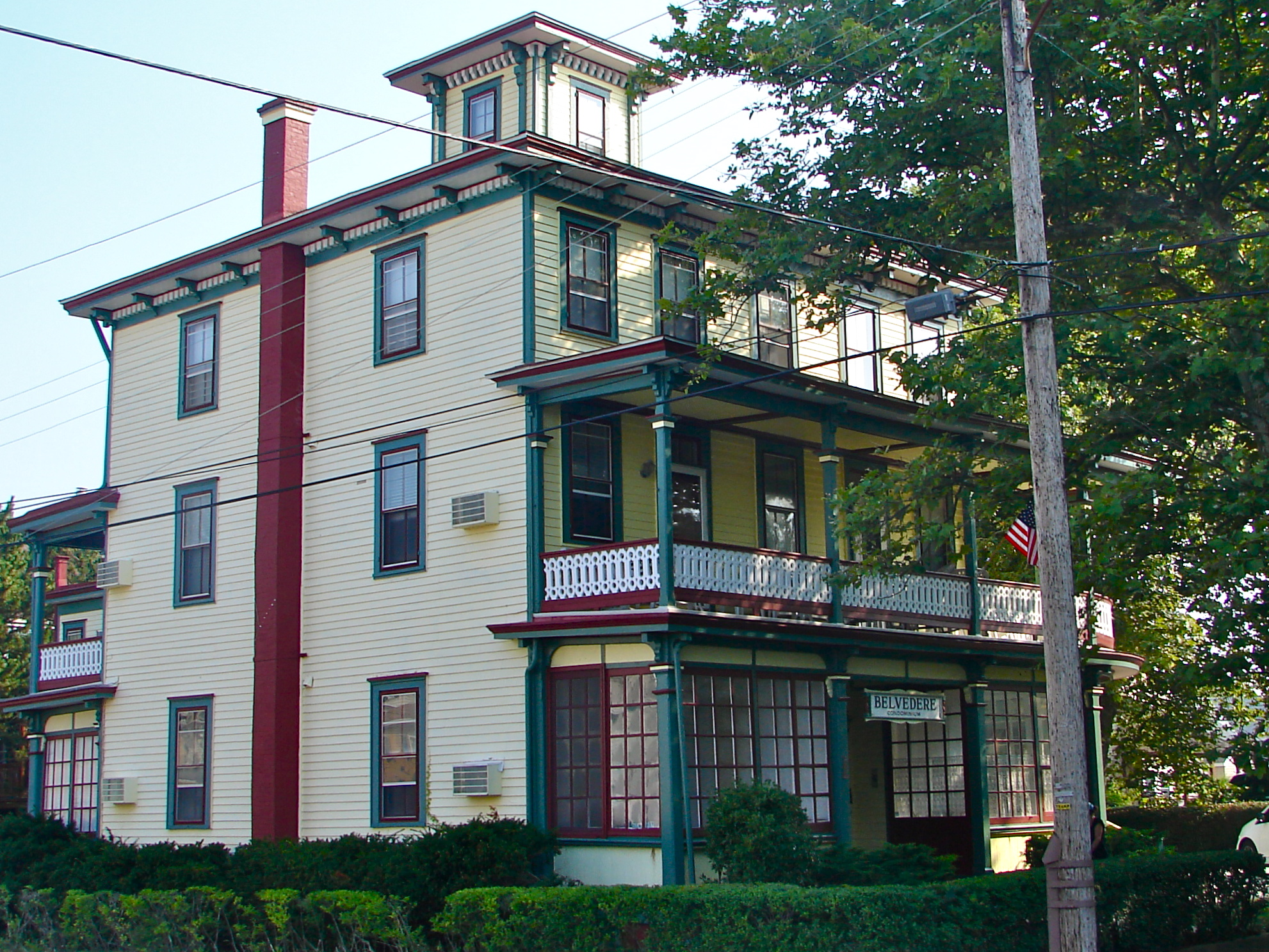 House at 101 S. LaFayette Street in Cape May, New Jersey, near the corner with Windsor. Known as "Belvedere" and used as a bed and breakfast for the beach resort. Designed by architect Stephen Decatur Button. In the Cape May Historic District.